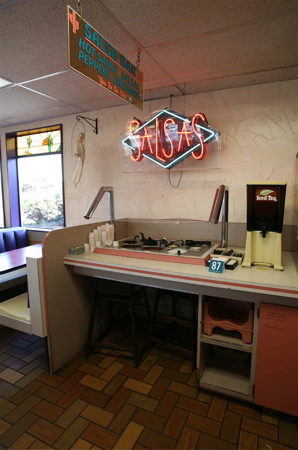 The salsa bar of The Dalles, Oregon Taco Time. Location of 1984 Rajneeshee bioterror attack.